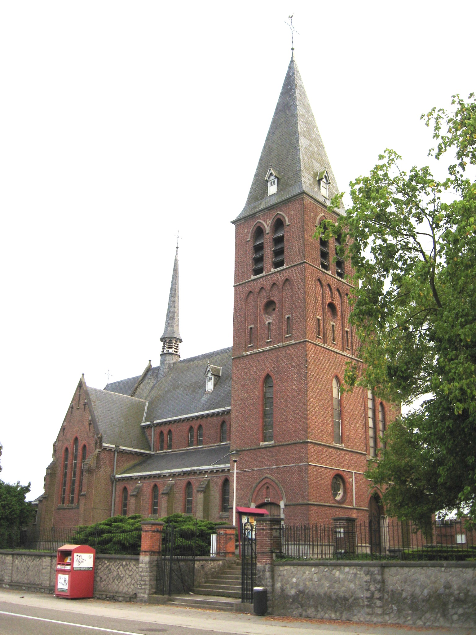 Church of Saint John the Baptist in Engelmanshoven, Sint-Truiden, Limburg, Belgium